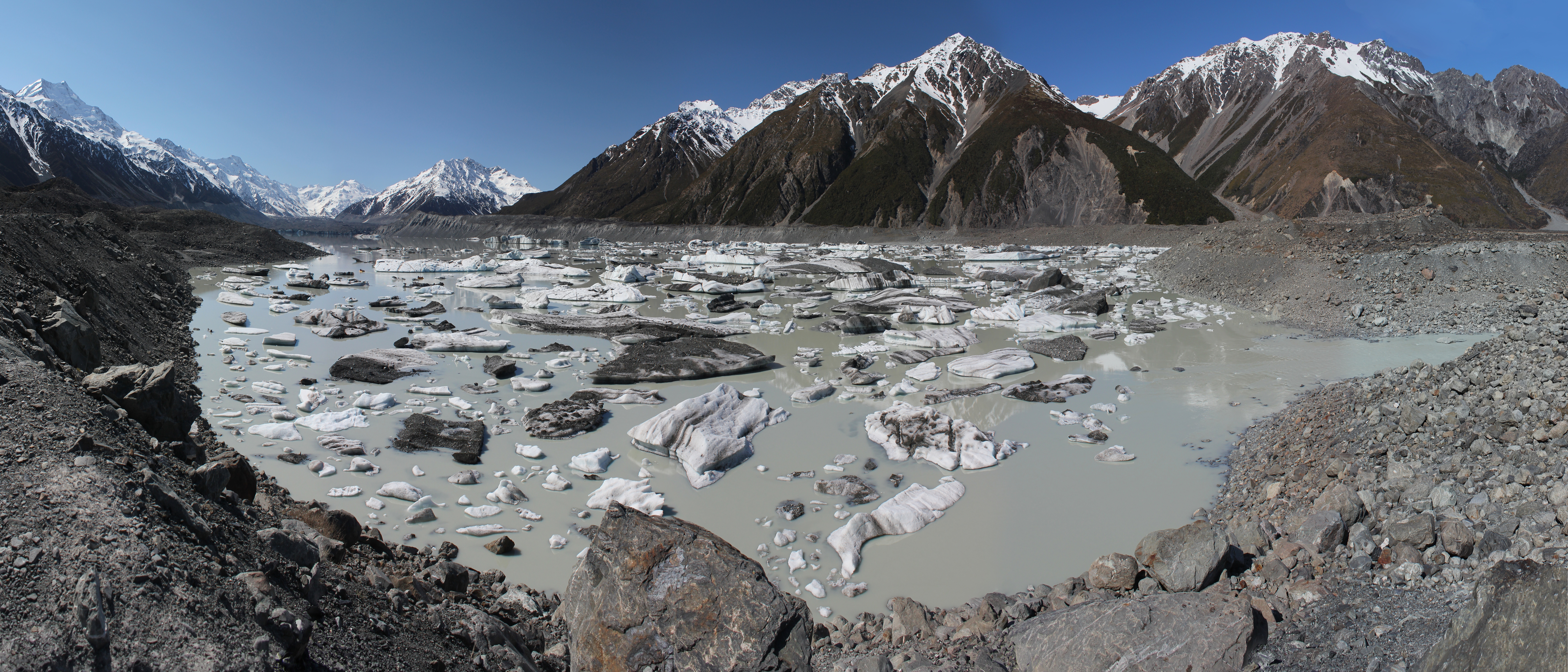 Tasman Lake, as seen from near its outlet (far right). Tasman Glacier can be seen across the lake, in the distance on the left. Its lower reaches are mantled with rock debris, as are several of the icebergs in the lake. Two tour boats can be seen in this direction, near a large white iceberg. The glacier's barren lateral and terminal moraines line the rest of the lake's coastline, and the Murchison River has cut an entrance through the lateral moraine opposite this viewpoint. Aoraki / Mount Cook (New Zealand's tallest mountain) is the high peak at far left, and the Minarets are visible in the distance above the glacier.